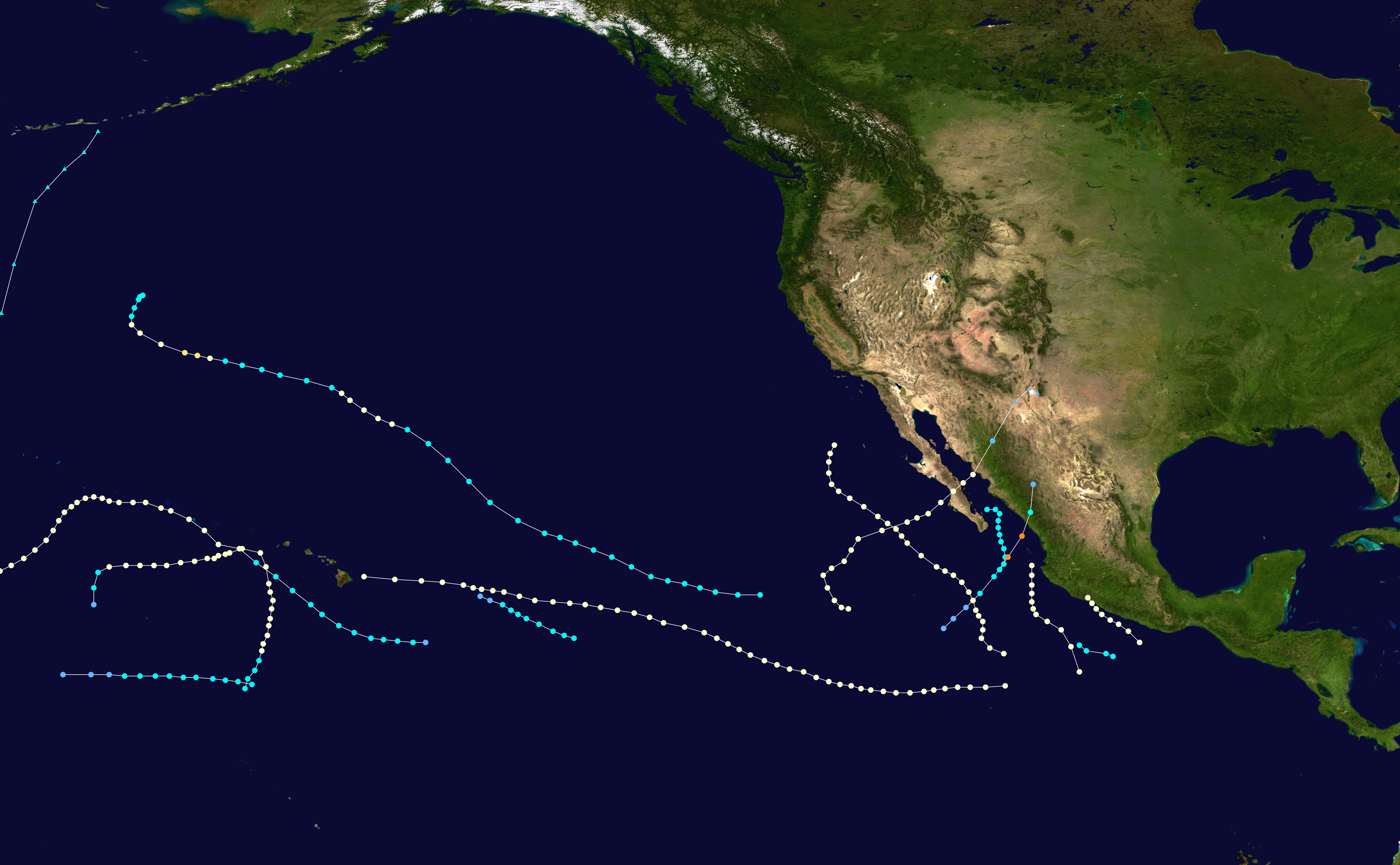 This map shows the tracks of all tropical cyclones in the 1957 Pacific hurricane season. The points show the location of each storm at 6-hour intervals. The colour represents the storm's maximum sustained wind speeds as classified in the Saffir-Simpson Hurricane Scale (see below), and the shape of the data points represent the type of the storm. Saffir–Simpson hurricane wind scale Tropical depression≤38 mph≤62 km/h Category 3111–129 mph178–208 km/h Tropical storm39–73 mph63–118 km/h Category 4130–156 mph209–251 km/h Category 174–95 mph119–153 km/h Category 5≥157 mph≥252 km/h Category 296–110 mph154–177 km/h Unknown Storm typeTropical cycloneSubtropical cycloneExtratropical cyclone / Remnant low / Tropical disturbance